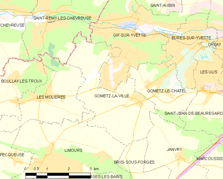 Map of French municipality Gometz-la-Ville